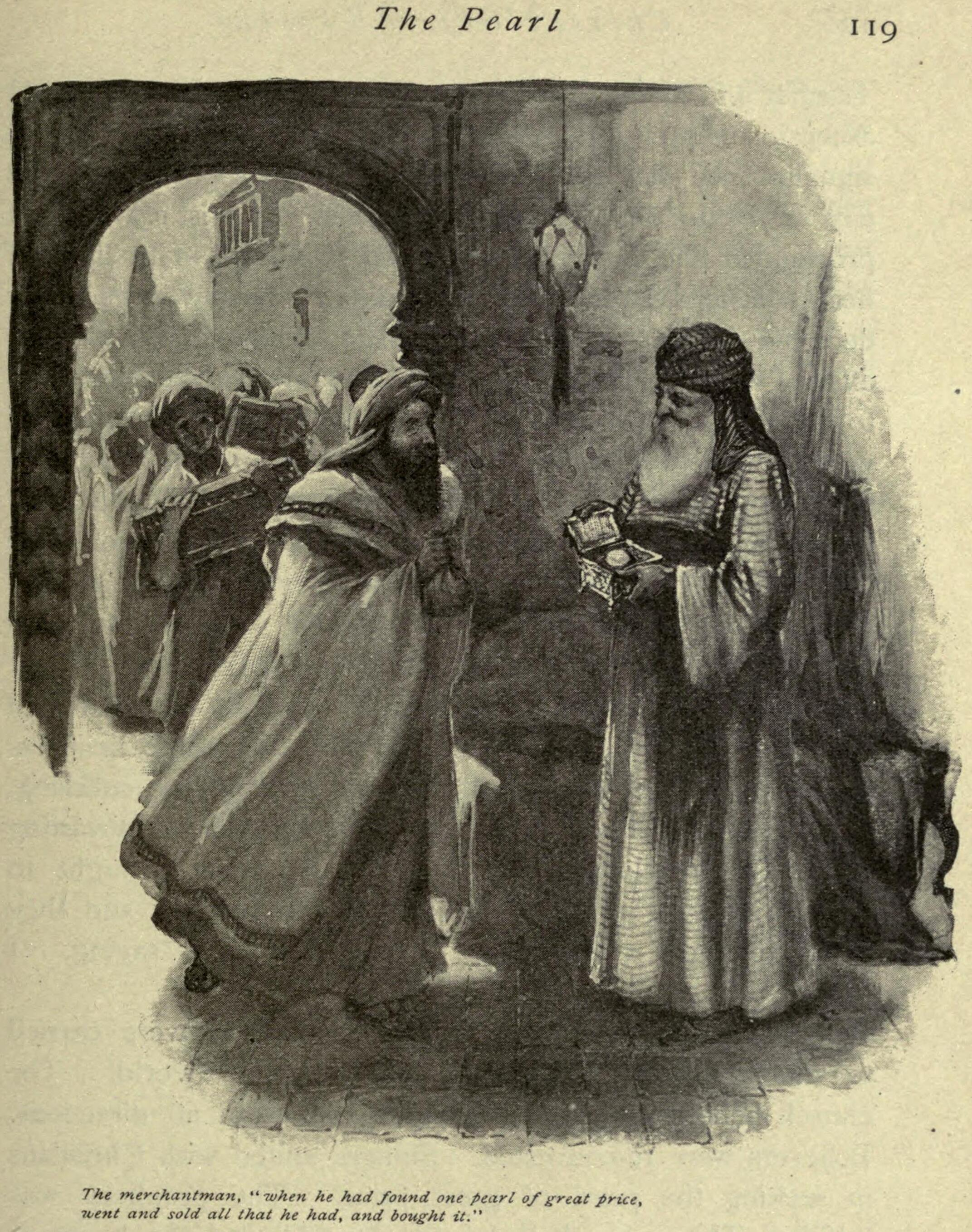 Some merchants gaze at an expensive pearl.